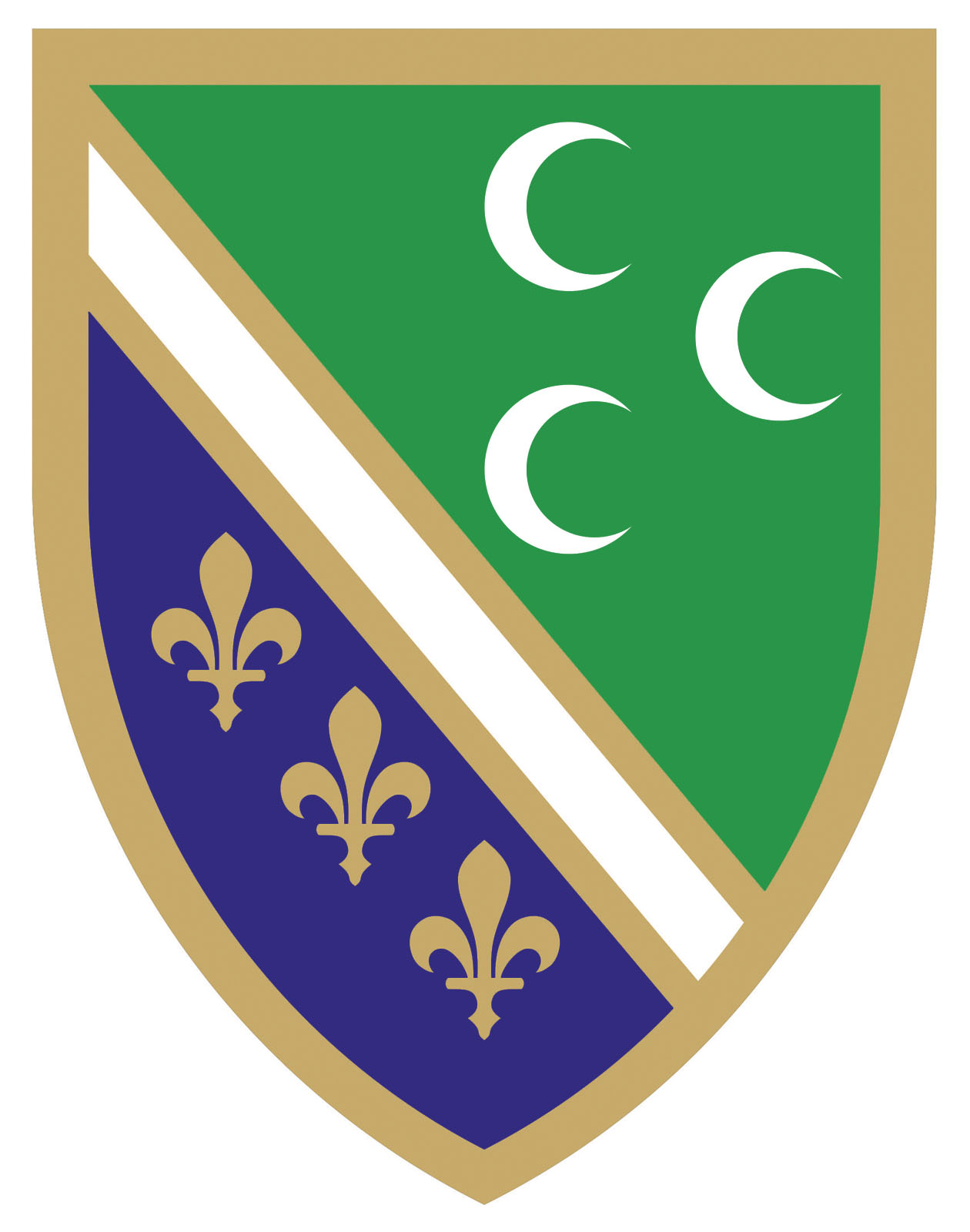 Crest of Bosniak national minority in Serbia